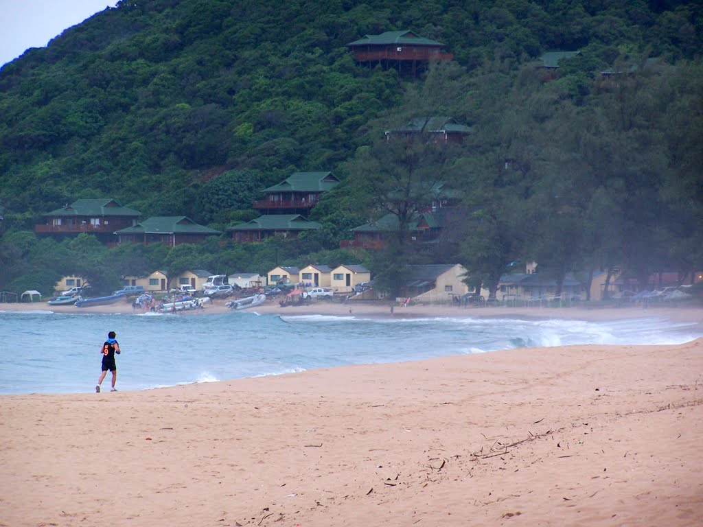 Ponta do Ouro, province of Maputo, Mozambique